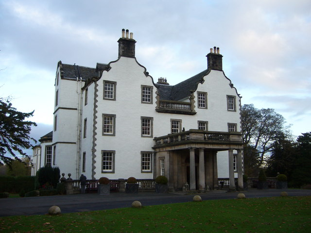 Prestonfield House Designed by the renowned architect Sir William Bruce for the physician Sir Alexander Dick, Prestonfield is one of the most historically significant buildings in Edinburgh and a gem of Scottish architecture. The first house, destroyed by fire, was built some time after 1677 by James Dick, a wealthy merchant and Lord Provost. Visitors have included 'Bonnie Prince Charlie' who was wined and dined here while the Jacobite Army was encamped at nearby Duddingston during the '45 Rising. Boswell and Johnson also paid their respects to the laird in 1773 before setting out on their tour of the Western Isles. It was Dick who pioneered the cultivation of rhubarb in Scotland, which is still a staple item on the present-day Hotel's menu.